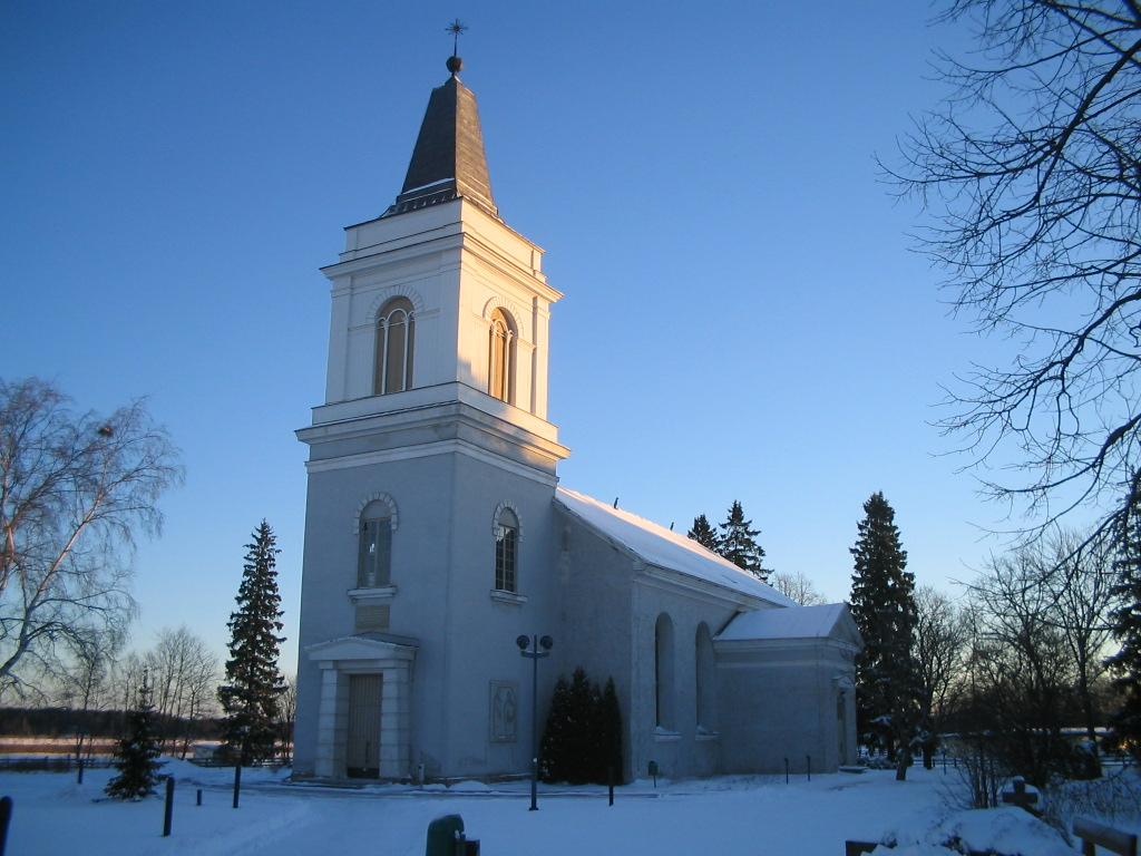 St. Mary's church (Marian kirkko) in Hamina, Finland.